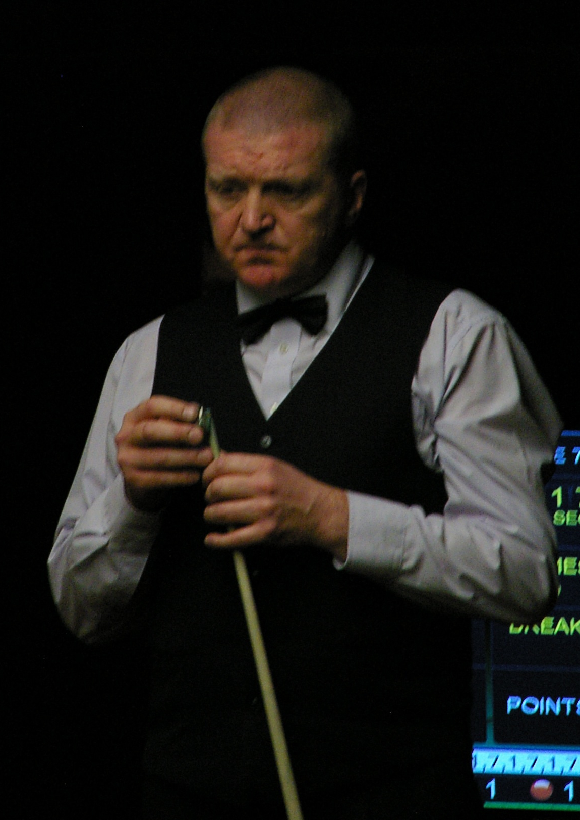 English snooker player Dave Harold at the 2014 German Masters